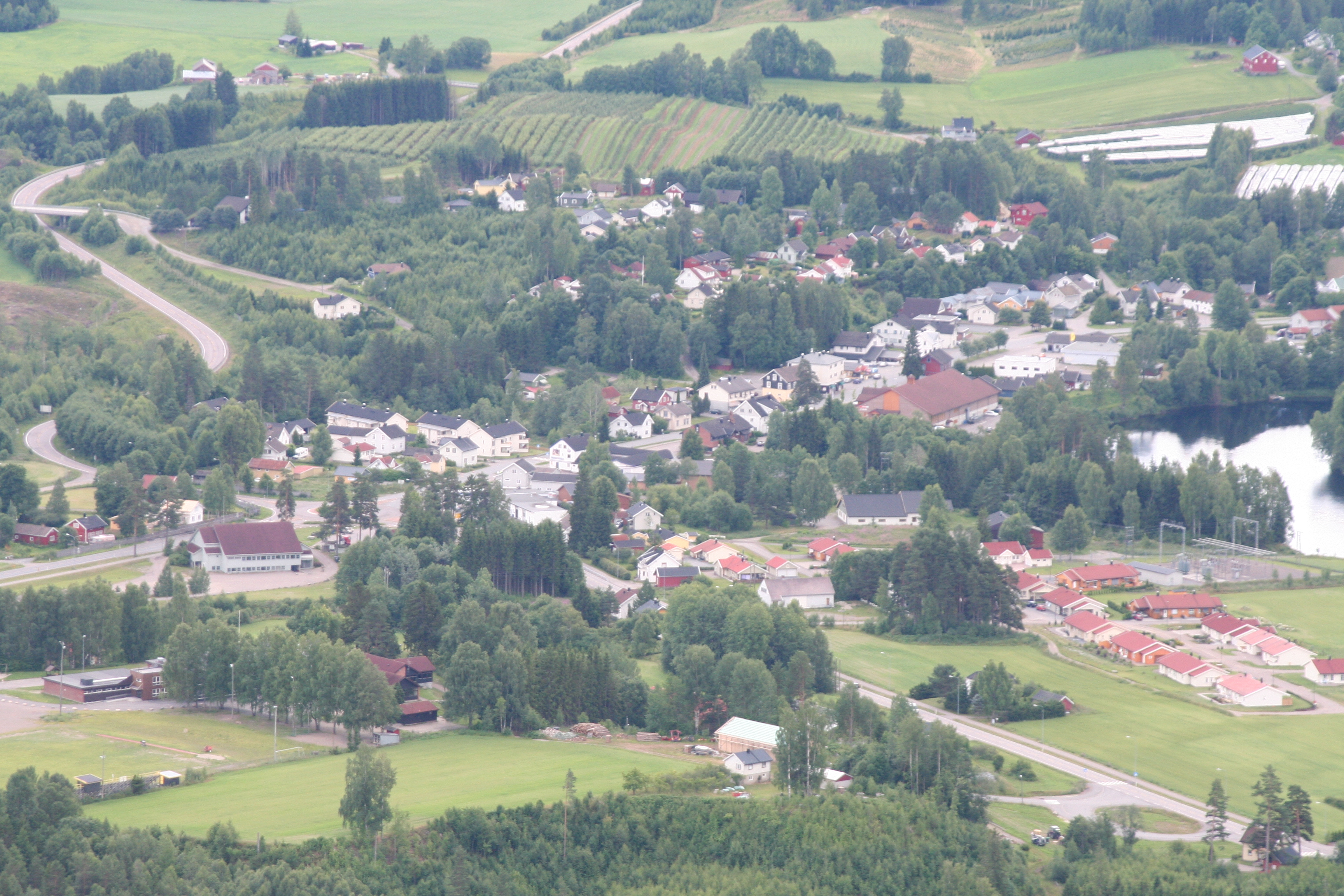 View on Hvittingfoss taken from the paraglider platform on Grøtterud